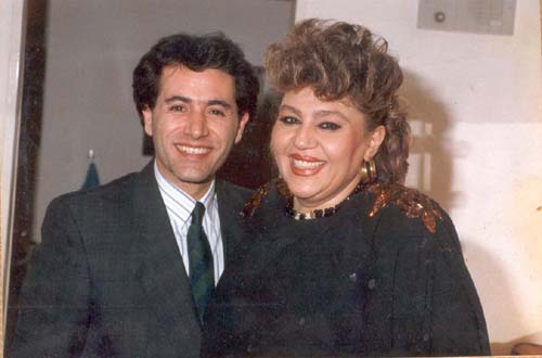 Hayedeh and Mehyar Bahraminasab (tombak player), Hamburg, 1988